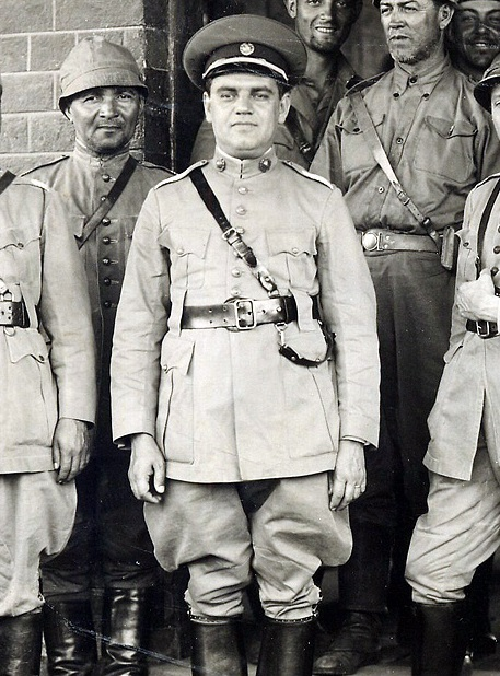 Part of a photograph of Herculano de Carvalho e Silva, Brazilian revolutionary leader and federal interventor in São Paulo in 1932.